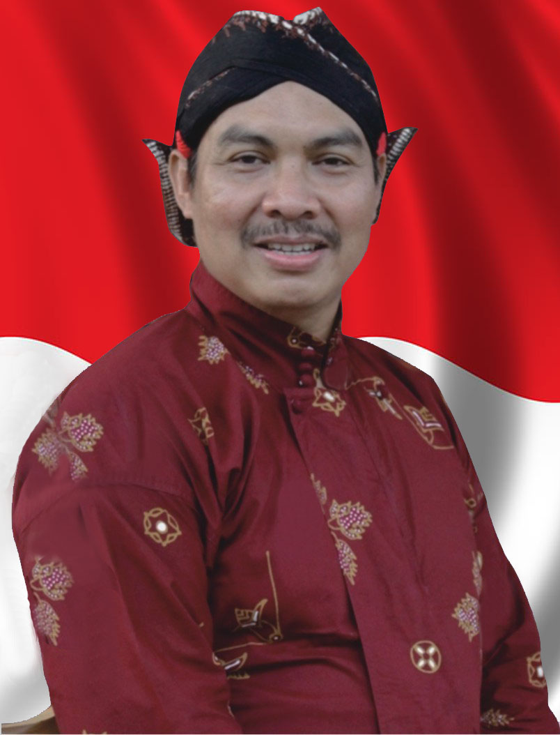 H. HASTO WARDOYO calon bupati Kulon Progo 2017